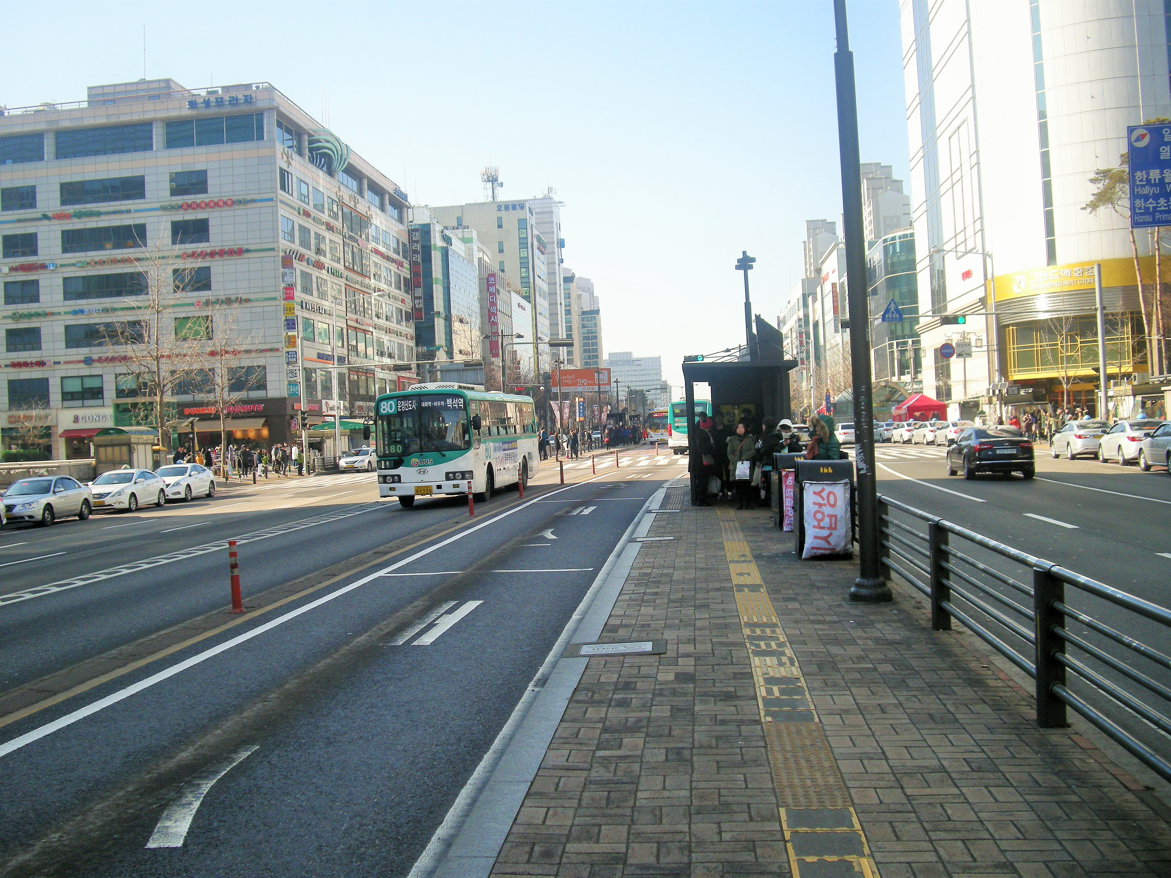 Goyang Jungang-ro near Juyeop Station